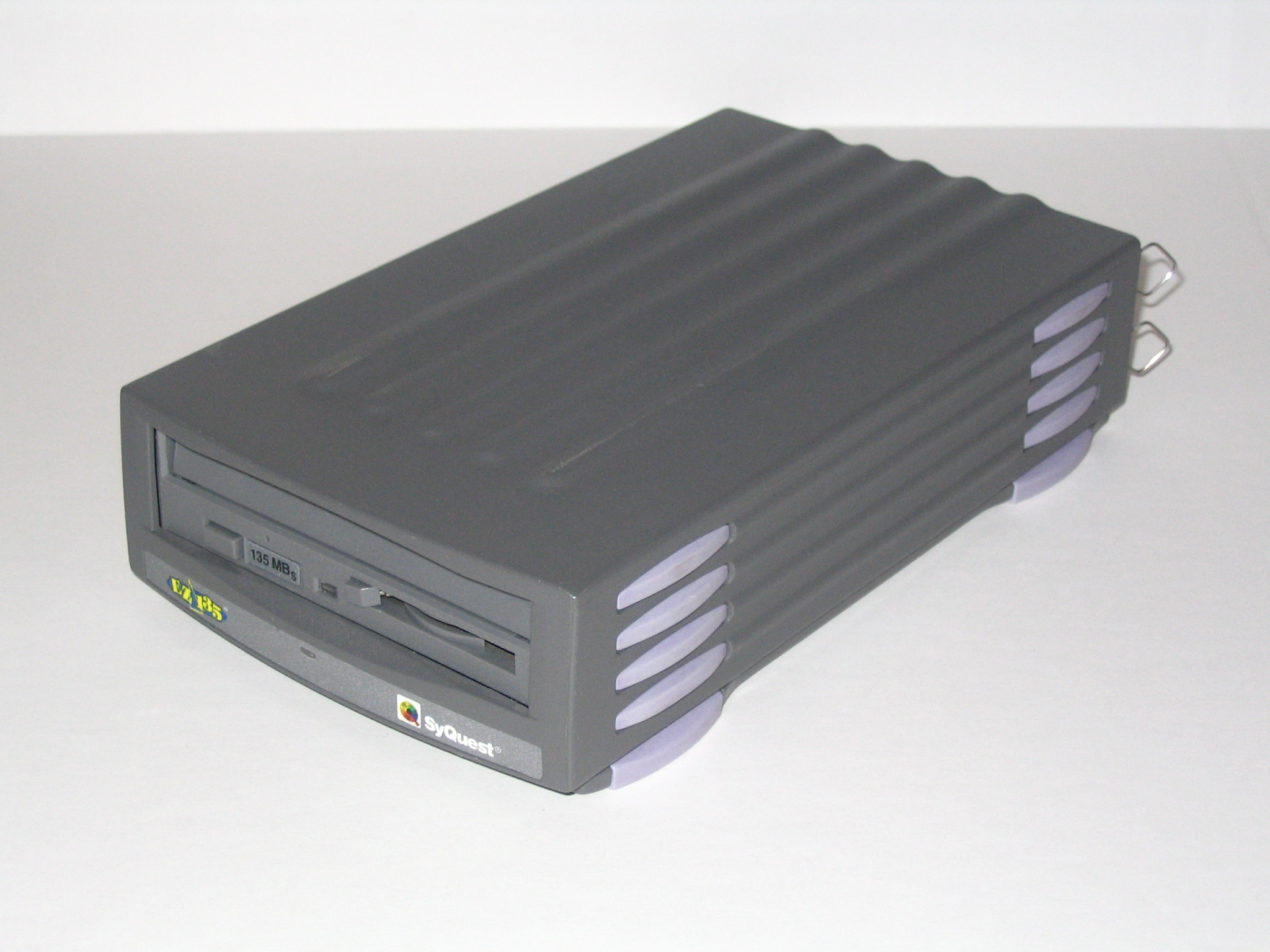 SyQuest EZ135 Drive - External SCSI - Front Author: Ckmac97 Date: 05/06/2006